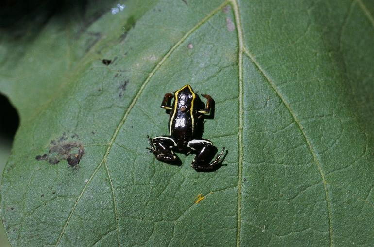 Eleutherodactylus iberia